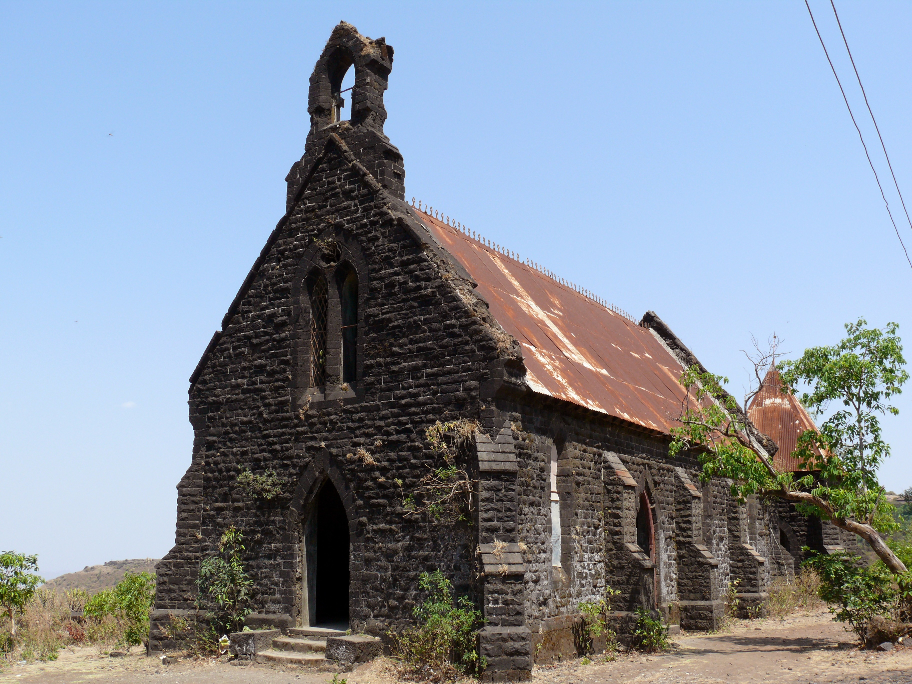 Old Church